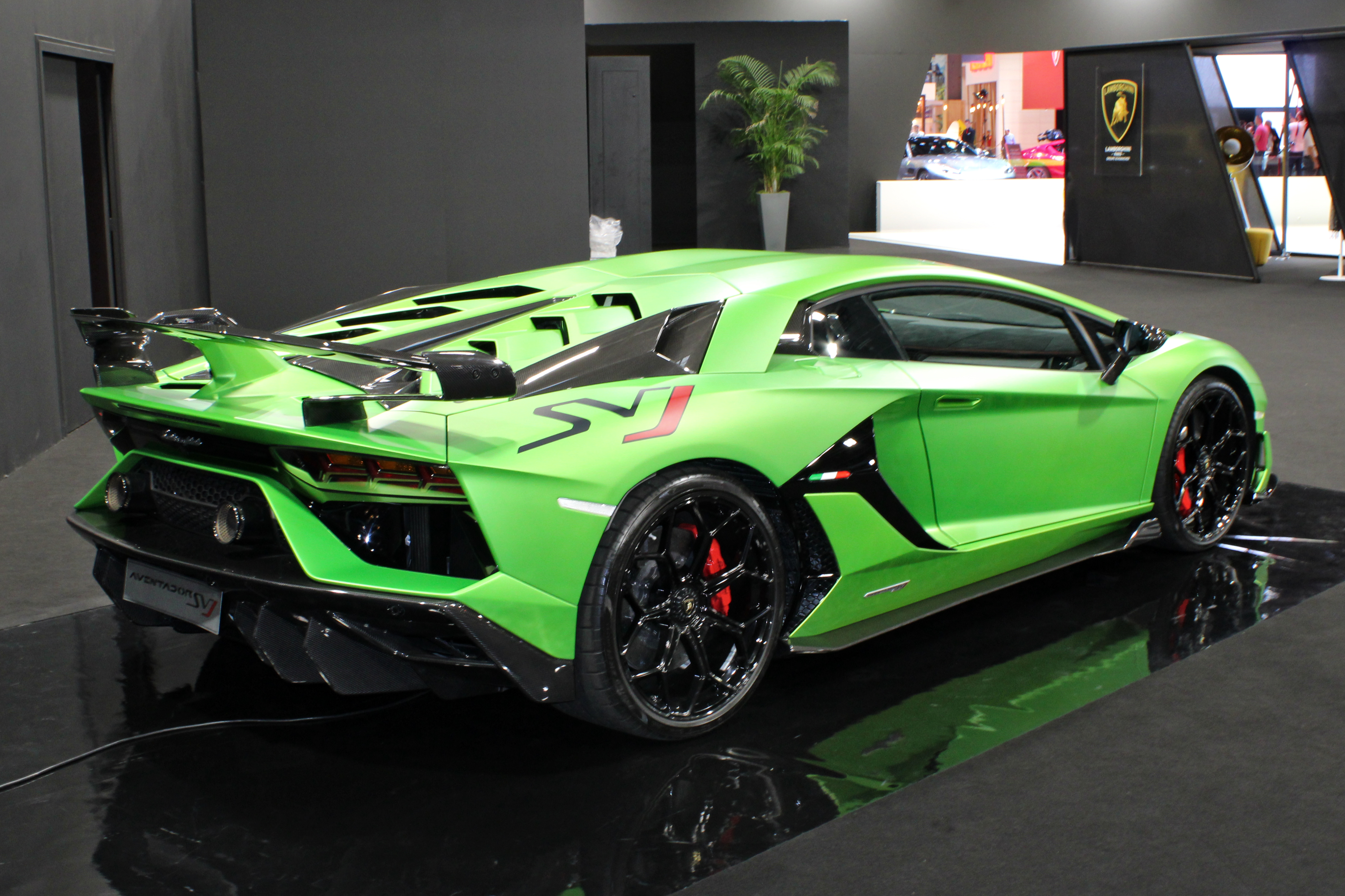 Lamborghini Aventador SVJ at Paris Motor Show 2018